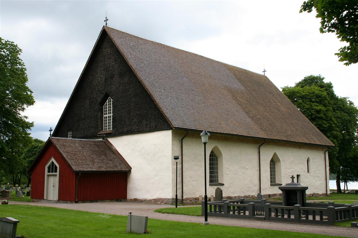 Norra Sandsjö Church